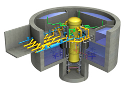 Economic Simplified Boiling-Water Reactor (ESBWR) - cutaway view